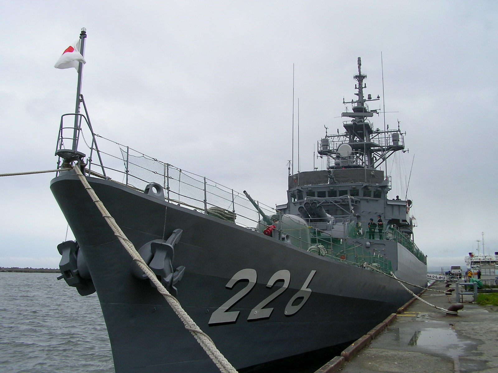 JMSDF DE-226 ISHIKARI under anchorage to the Wakkanai harbor central wharf.